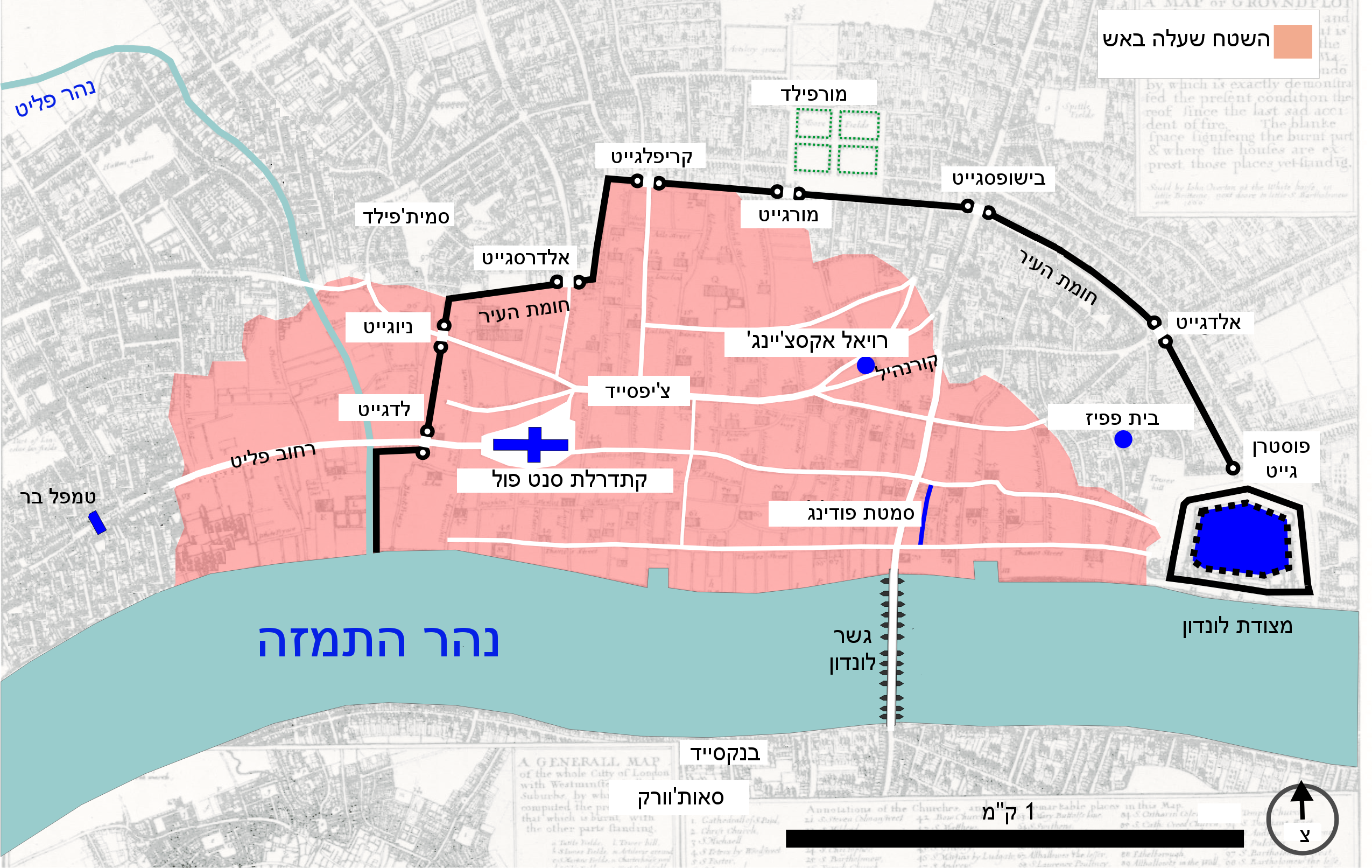 Great fire of london map